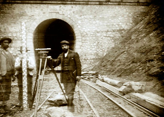 Construcción del Túnel el Árbol, de Pichilemu, en 1906 aprox.